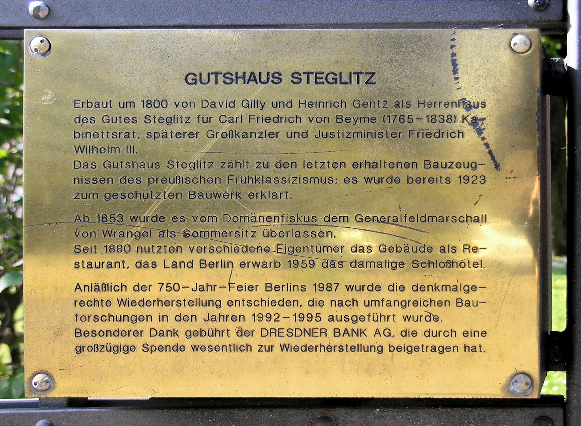 Memorial plaque, Gutshaus Steglitz, Schloßstraße 48, Berlin-Steglitz, Germany Koordinate:52°27′16″N 13°19′6″E / 52.45444°N 13.31833°E